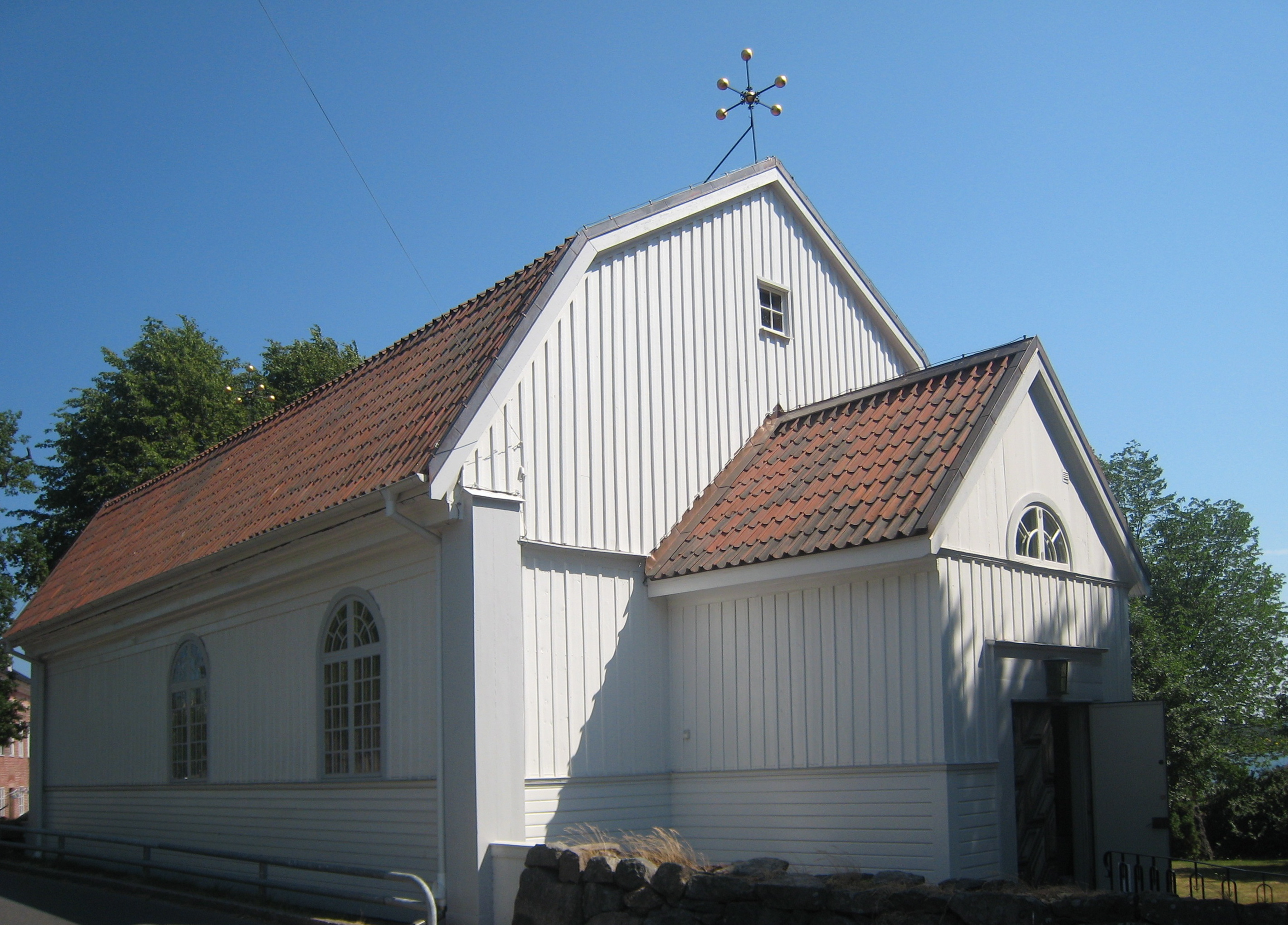 Dalarö kyrka.